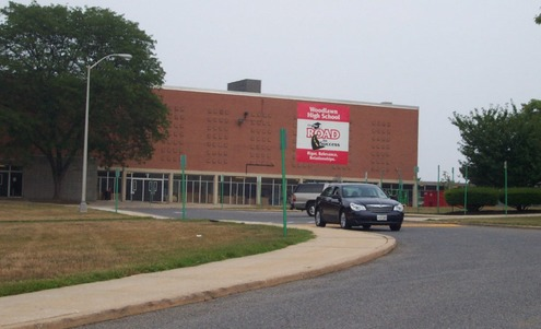 Woodlawn High School Gymnasium